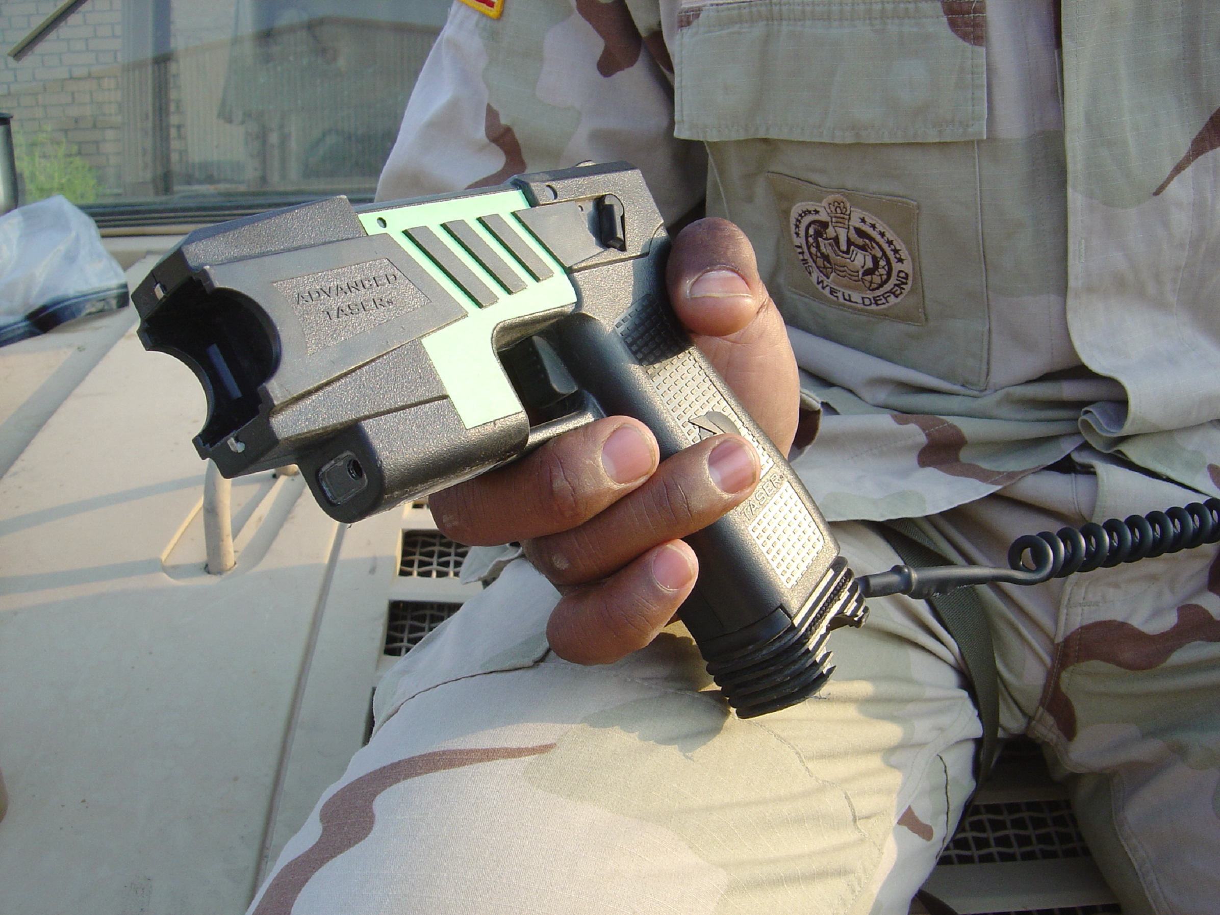 Advanced M26 TASER Stun Pistol - The United States military version of commercial TASERs for non-lethal detainment.